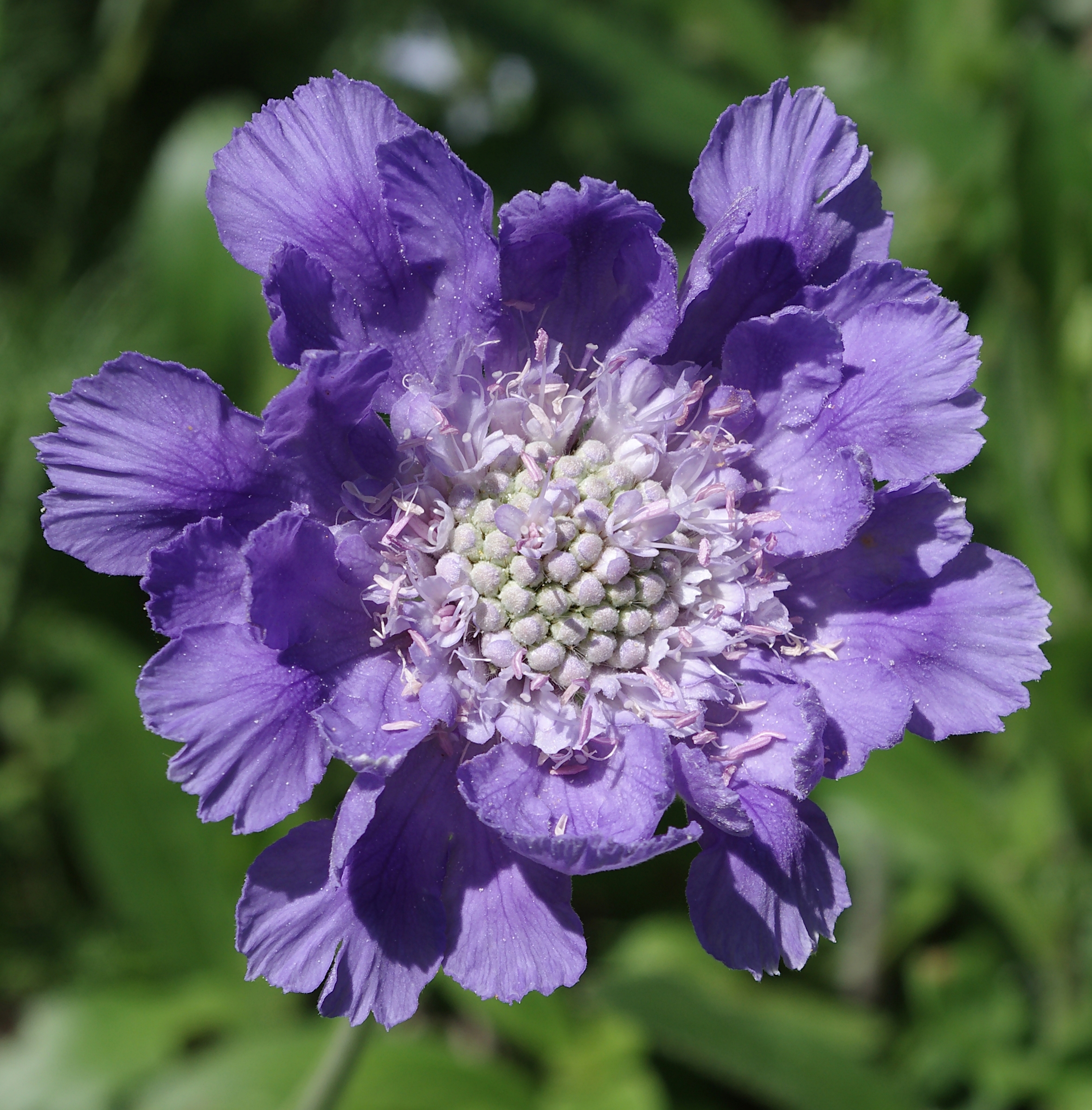 Pincushion-flower (Lomelosia caucasica), garden, France. APG IV Classification: Domain: Eukaryota • (unranked): Archaeplastida • Regnum: Plantae • Cladus: angiosperms • Cladus: eudicots • Cladus: core eudicots • Cladus: superasterids • Cladus: asterids • Cladus: euasterids II • Ordo: Dipsacales • Familia: Caprifoliaceae • Genus: Lomelosia • Species: Lomelosia caucasica (M. Bieb.) Greuter & Burdet